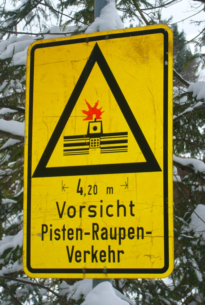 Traffic sign in a street "Vorsicht Pisten-Raupen-Verkehr" (transl. "Beware of Snowcats") because of their width (seen in Sudelfeld, Upper Bavaria, Germany).